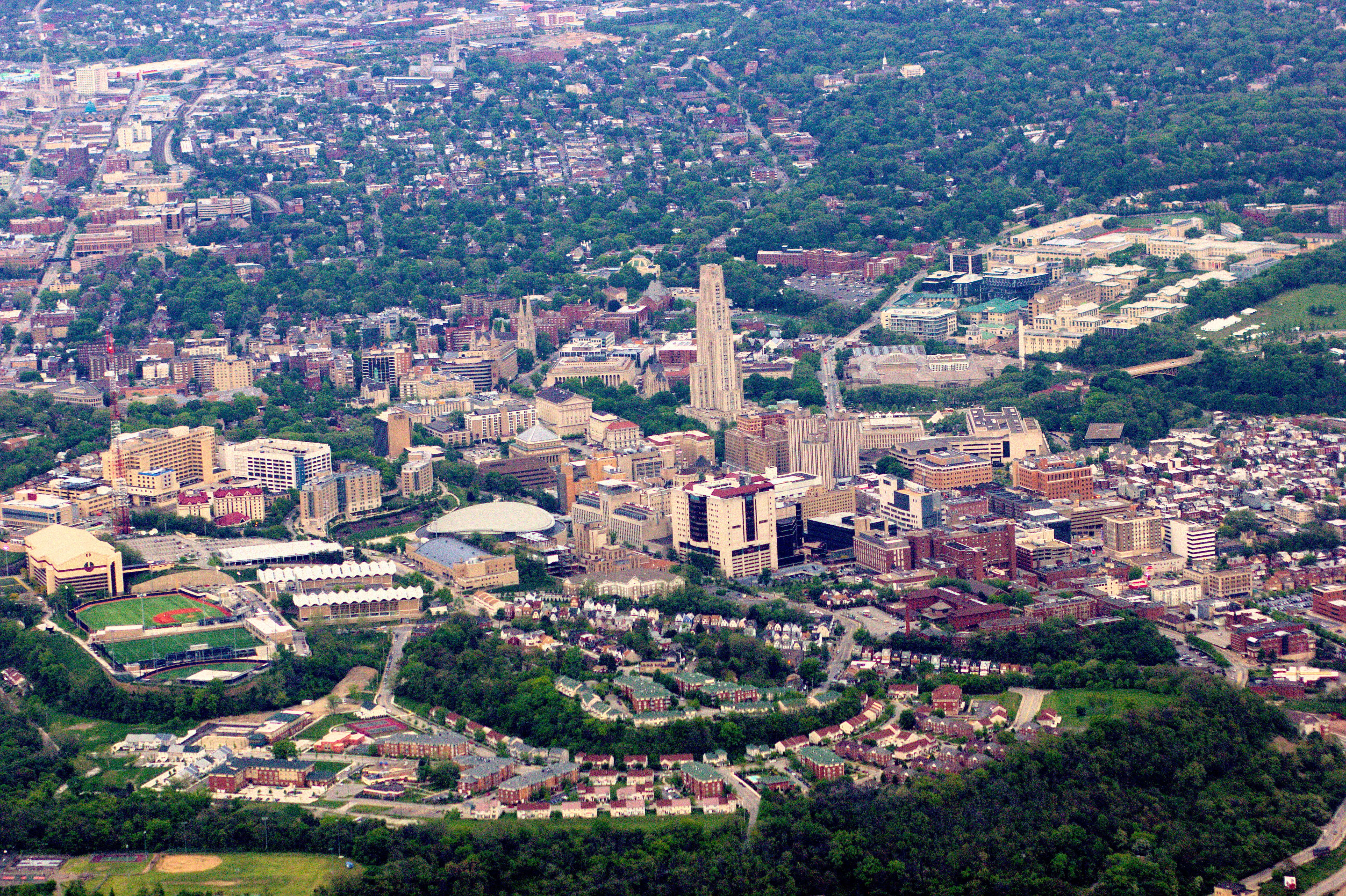 The Oakland neighborhood of Pittsburgh, Pennsylvania, as seen from an airplane window